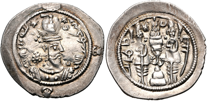 Coin of Hormizd IV, minted at Darabgerd in 587.